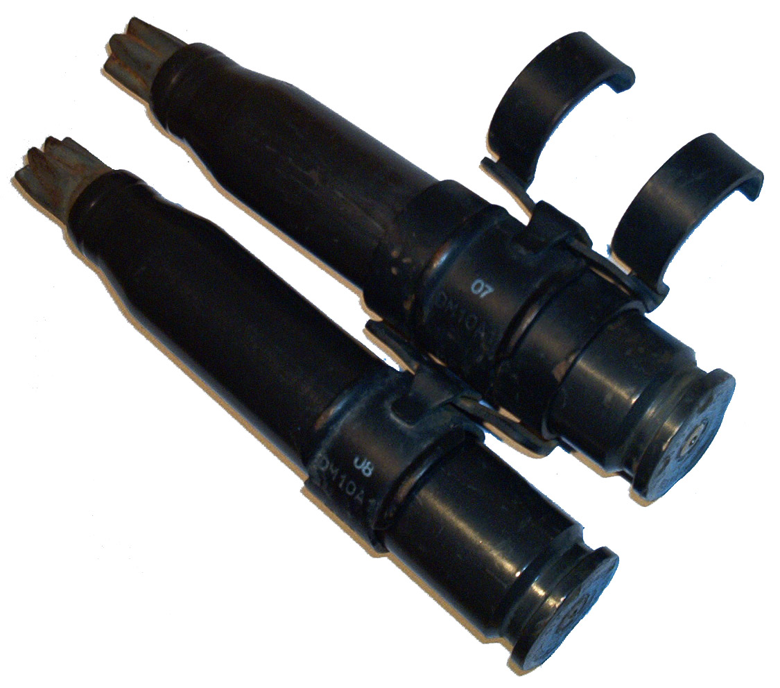 Platzpatronen (Hülsen) SPZ Marder 20mm Kanone BMK / Ammunition for the 20 mm machinegun of the german IFV Marder